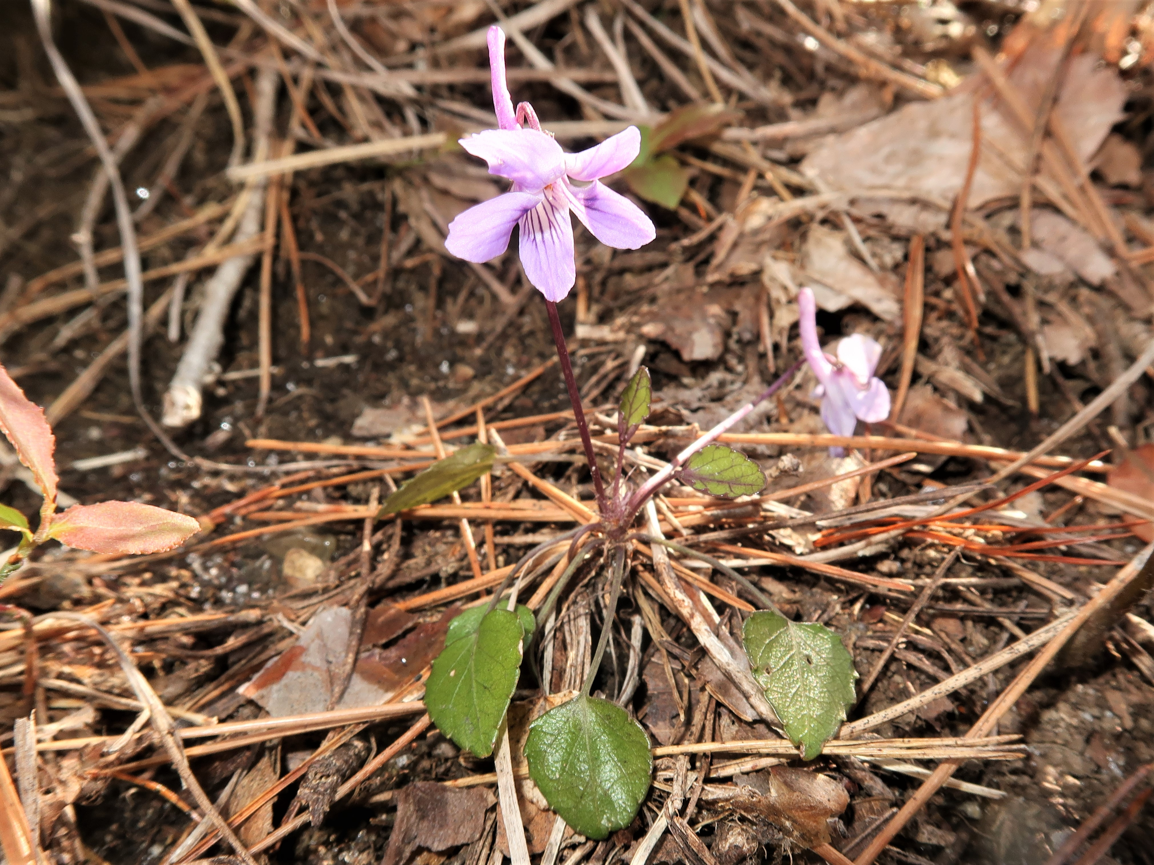 Viola awagatakensis, Aizu area, Fukushima pref., Japan